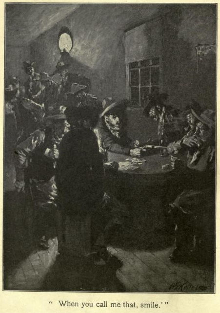 An illustration to the novel The Virginian, by Owen Wister (1902).